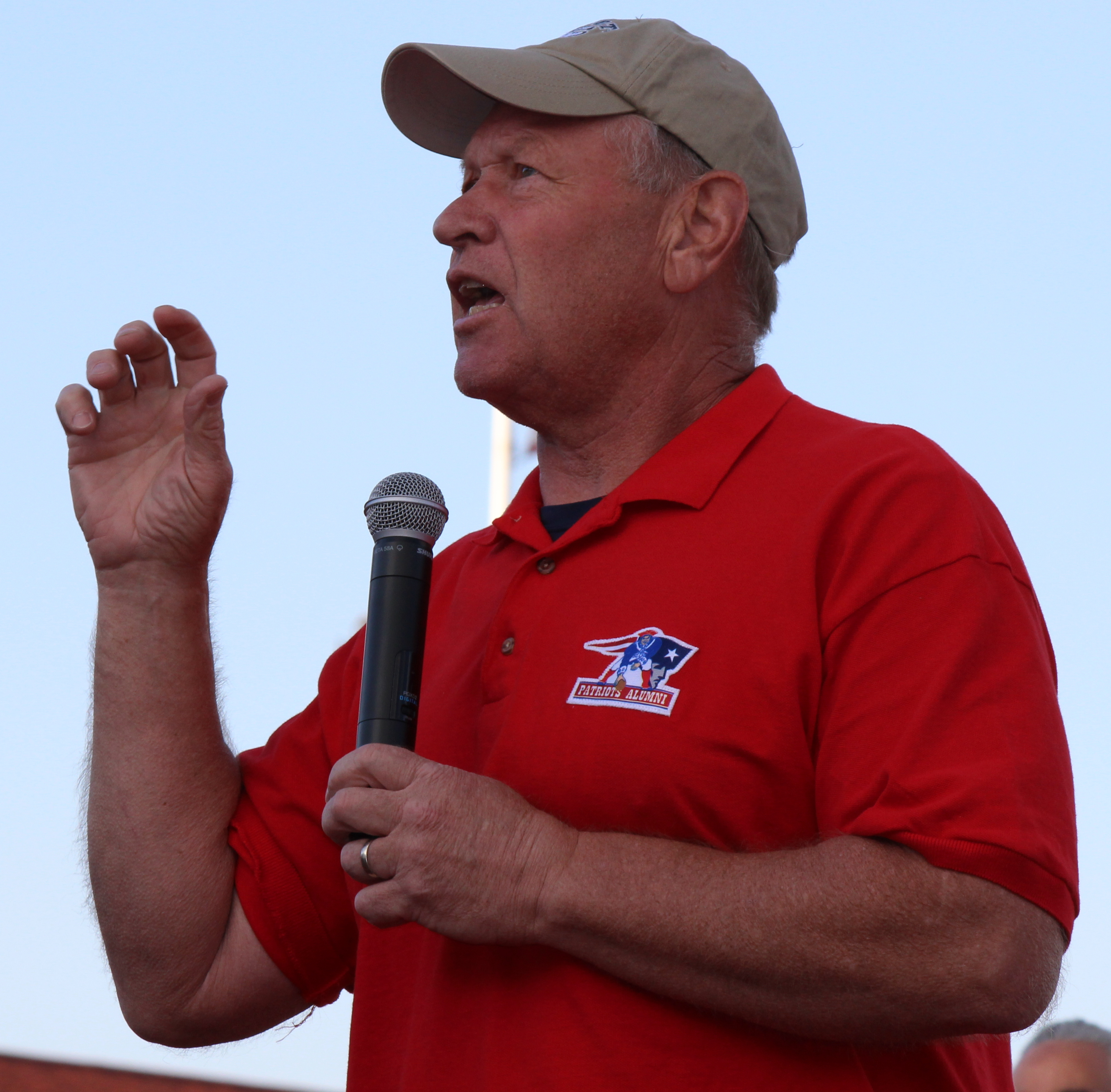 Steve Nelson holds and speaks into a microphone in New Bedford, Massachusetts in 2015.